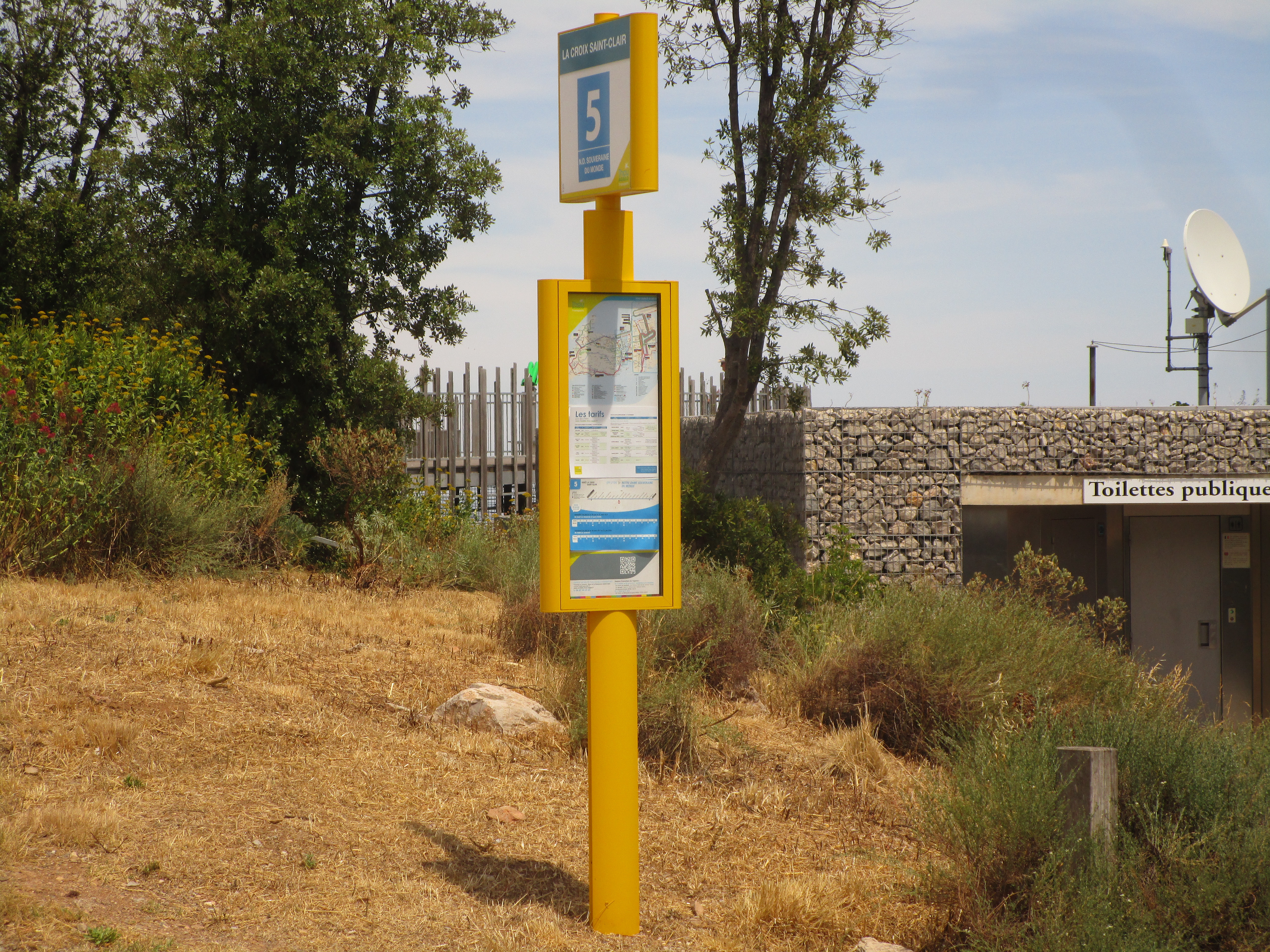 The bus stop La Croix Saint-Clair — in Sète, France — on June 27, 2017.